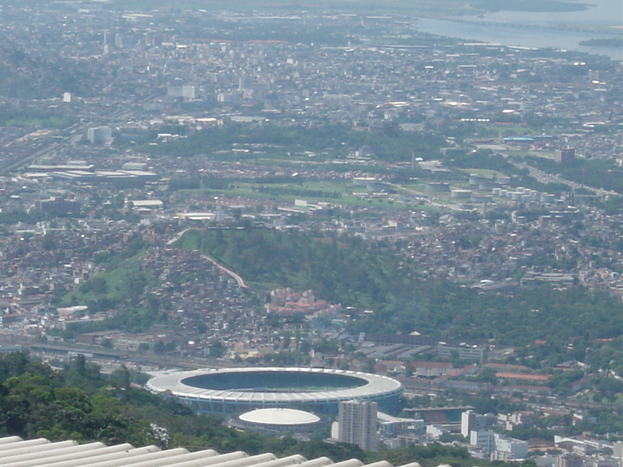 Estádio do Maracanã as viewed from Corcovado.